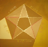 The serial "Mathemagic paintings" is published in the book "Martina Schettina - Mathemagische Bilder" Vernissage Verlag 2009. The diagonals divide each other in the golden ratio..